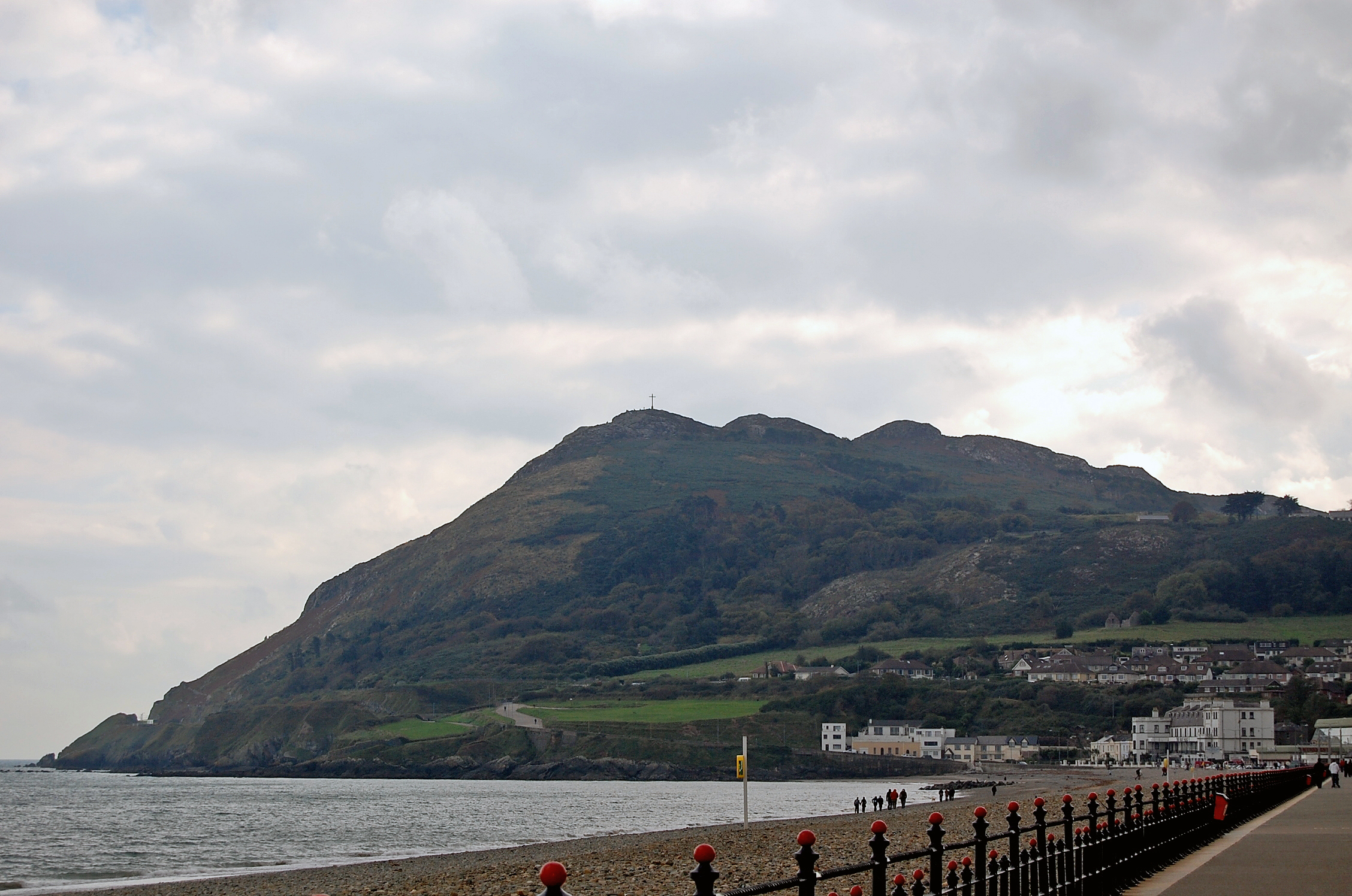 Bray Head in the Wicklow Mountains